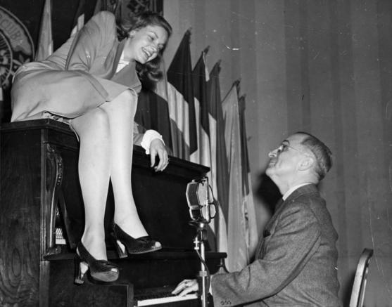 Actress Lauren Bacall sits atop the piano while Vice President Harry S. Truman plays at the National Press Club Canteen. They are at the canteen to entertain American servicemen.